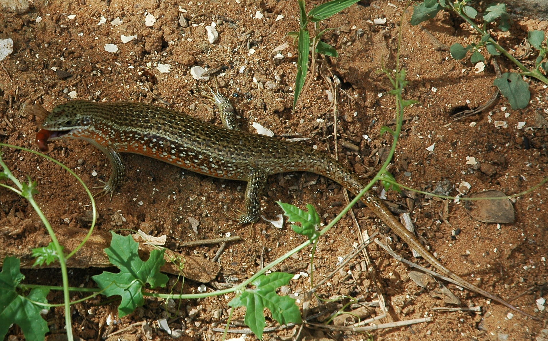 Seen in Makhana, Saint-Louis, Senegal. Rainy season. Geo coordinates: 16.0834, -16.3666